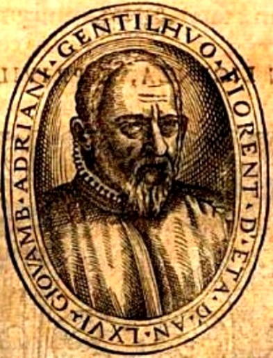 Giovan Battista Adriani (1511-1579), italian historiographer. Engraving from the book "Istoria de' suoi tempi" (1583).